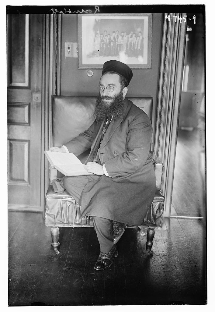 Yossele Rosenblatt in 1918